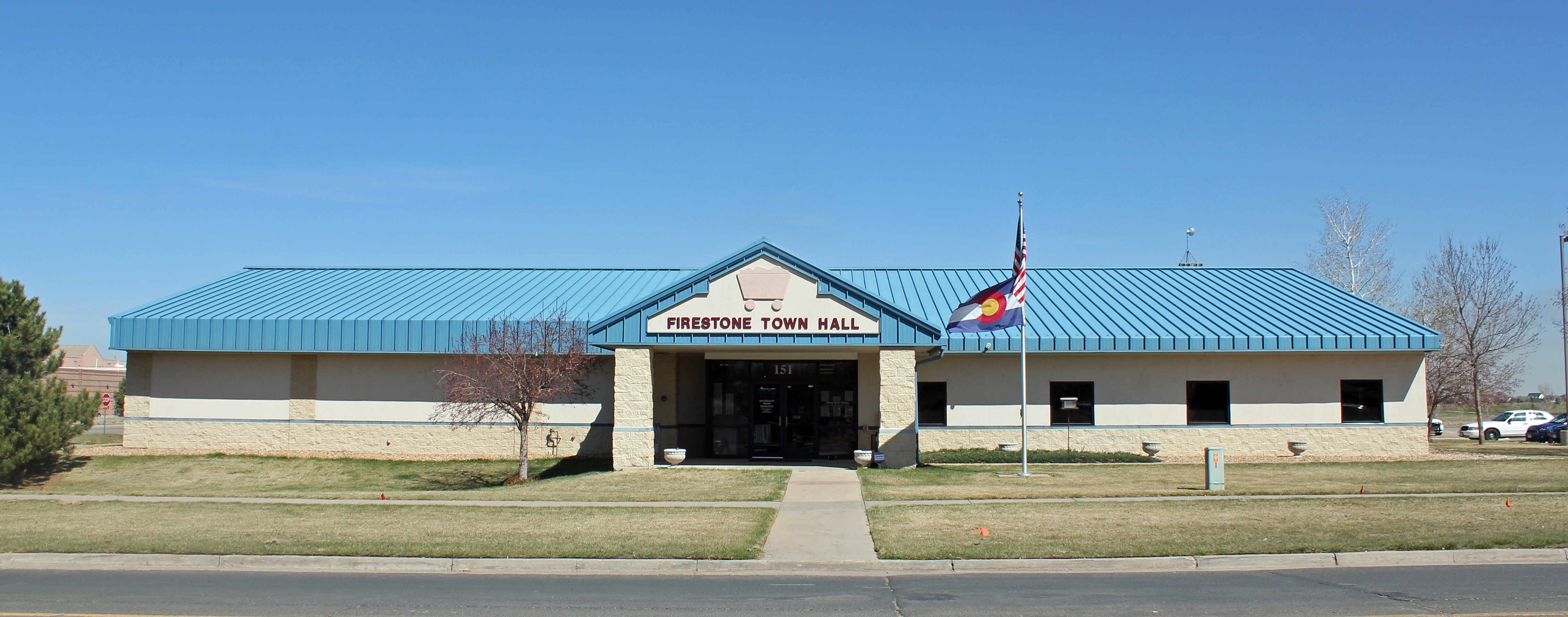 The town hall of Firestone, Colorado, located at 151 Grant Avenue.